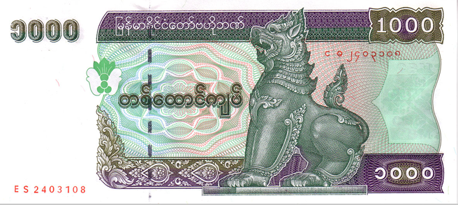 1998 series 1000 kyat obverse